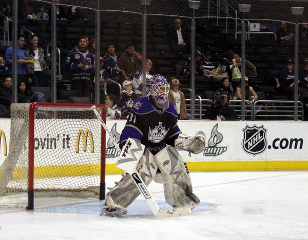 Erik Ersberg warming up prior to his NHL debut against the Chicago Blackhawks, February 23, 2008.